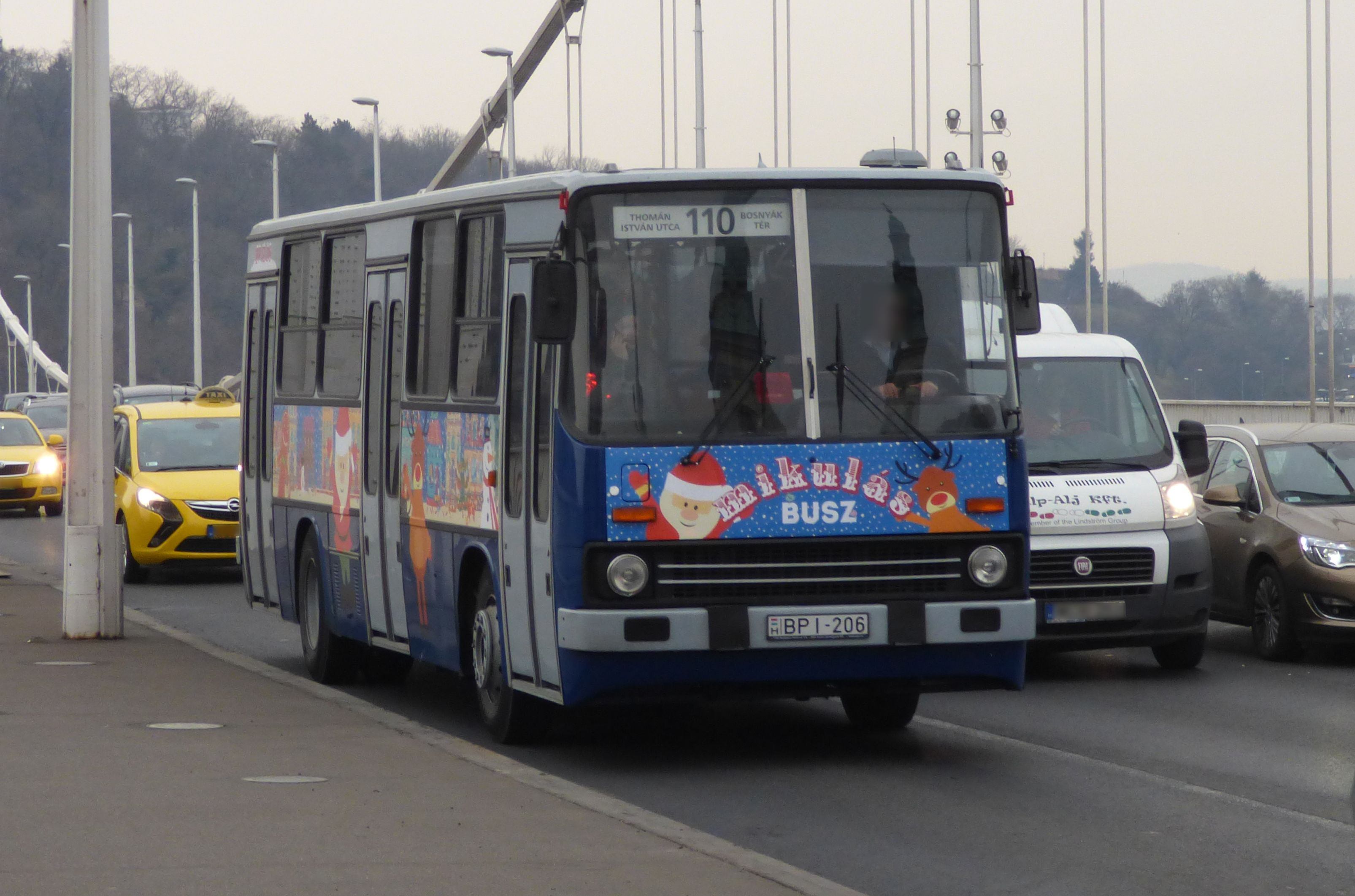 Ikarus 260 bus ("Santa Claus bus"; reg. BPI-206) on line number 110 (Budapest)